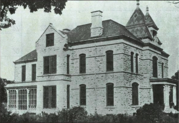 The John A. Green Estate Mansion — of Stone City, Iowa. Limestone house of the John A. Green Estate — a Historic district contributing property to the Stone City Historic District, and on the National Register of Historic Places.